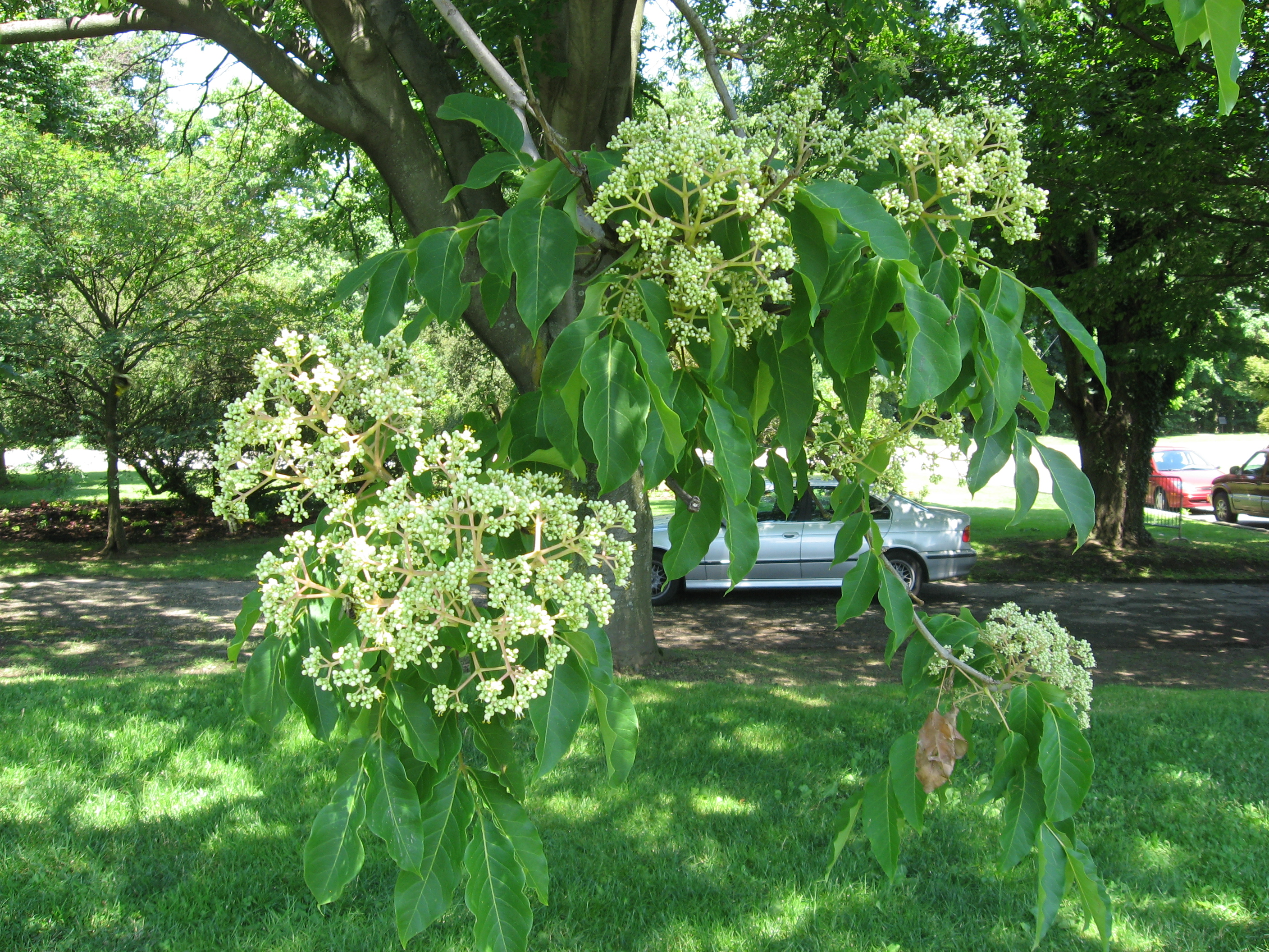 A picture of the leaves and flowers of Tetradium daniellii.